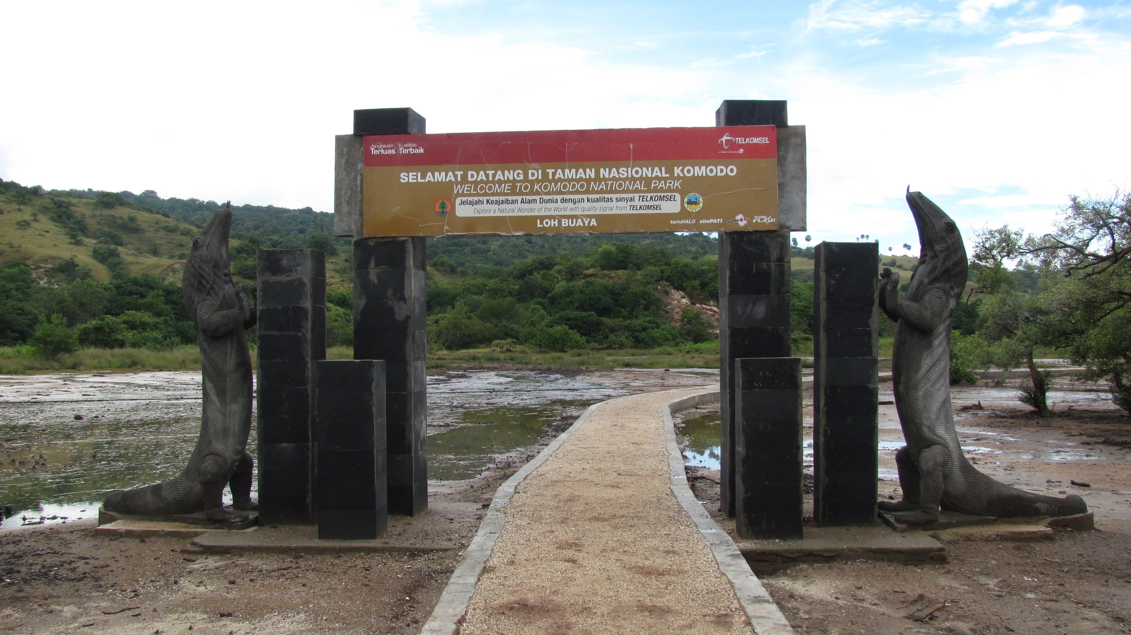 Entrance to the National Park, Rinca, Indonesia